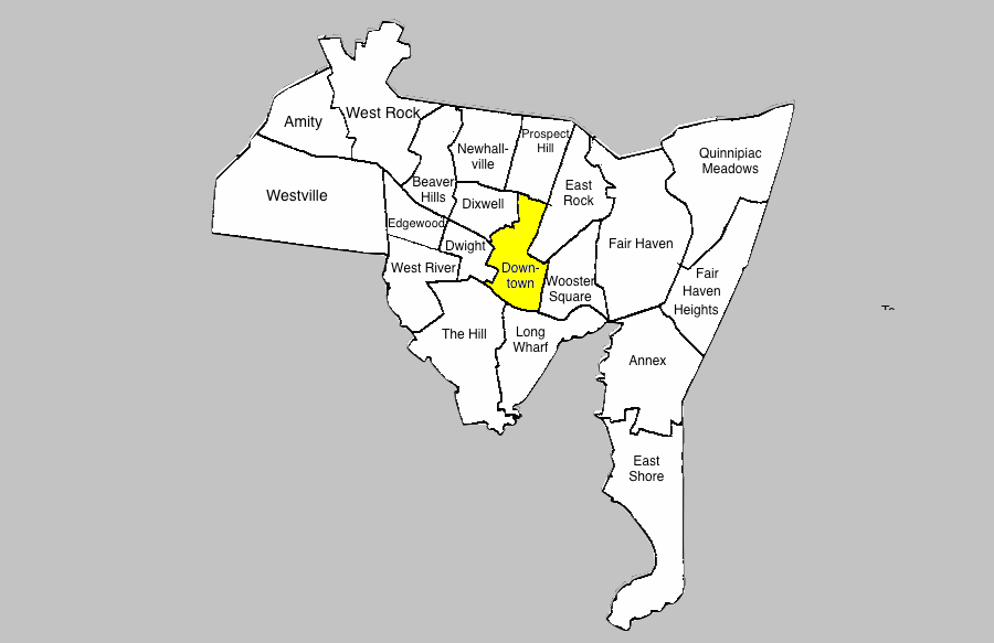 Location of the Downtown neighborhood of New Haven, Connecticut